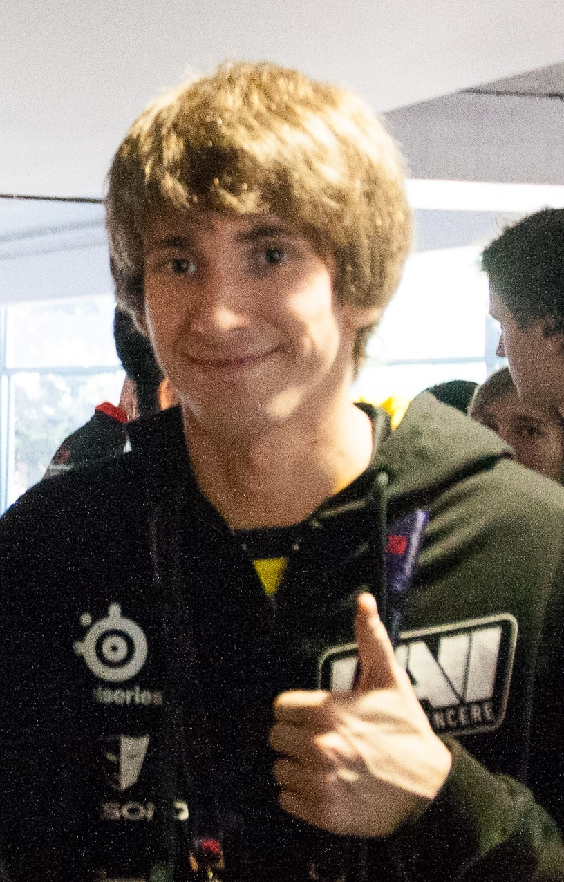 Danil Ishutin (Dendi) at The International 2014. Cropped from the original.